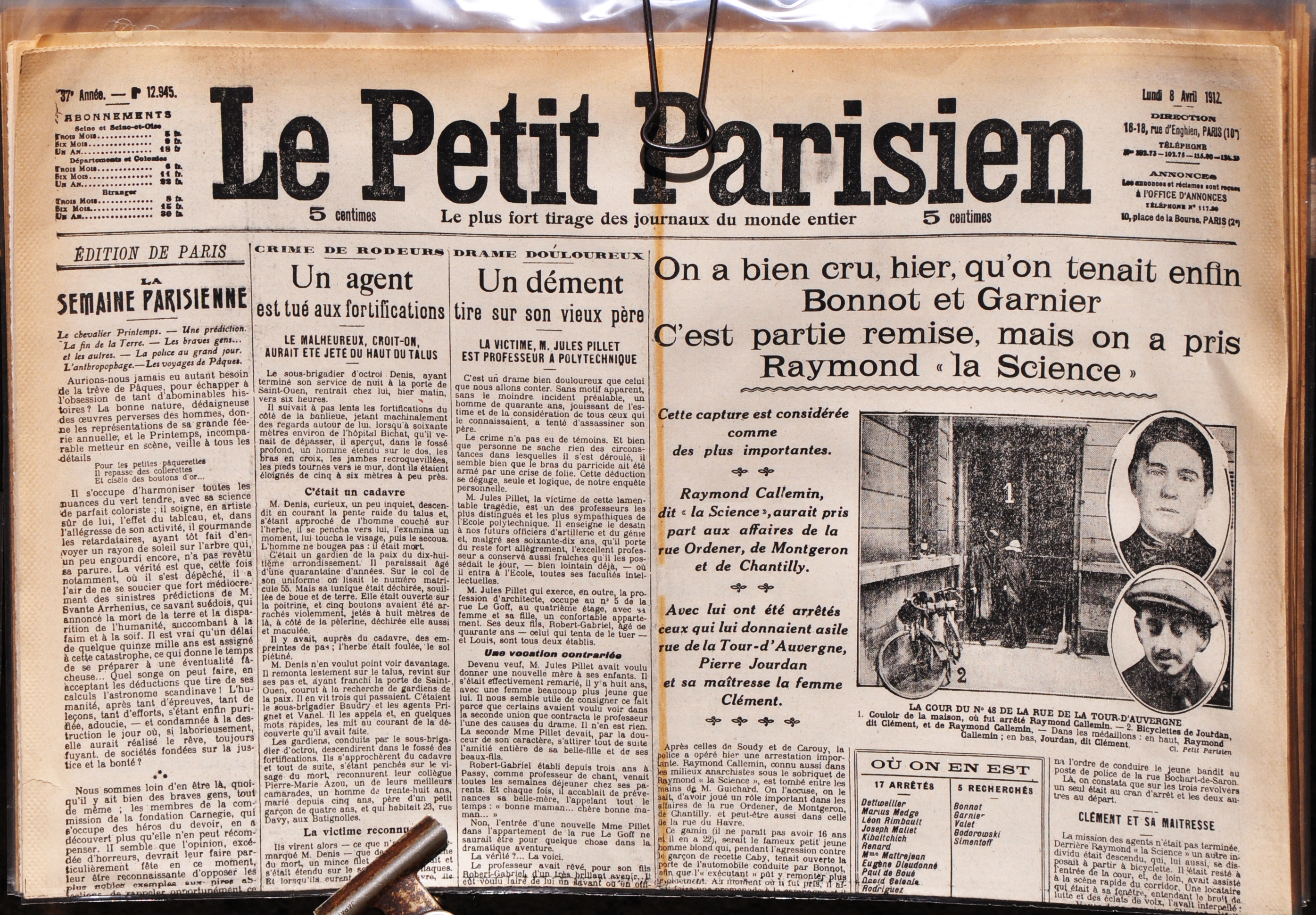 French newspaper